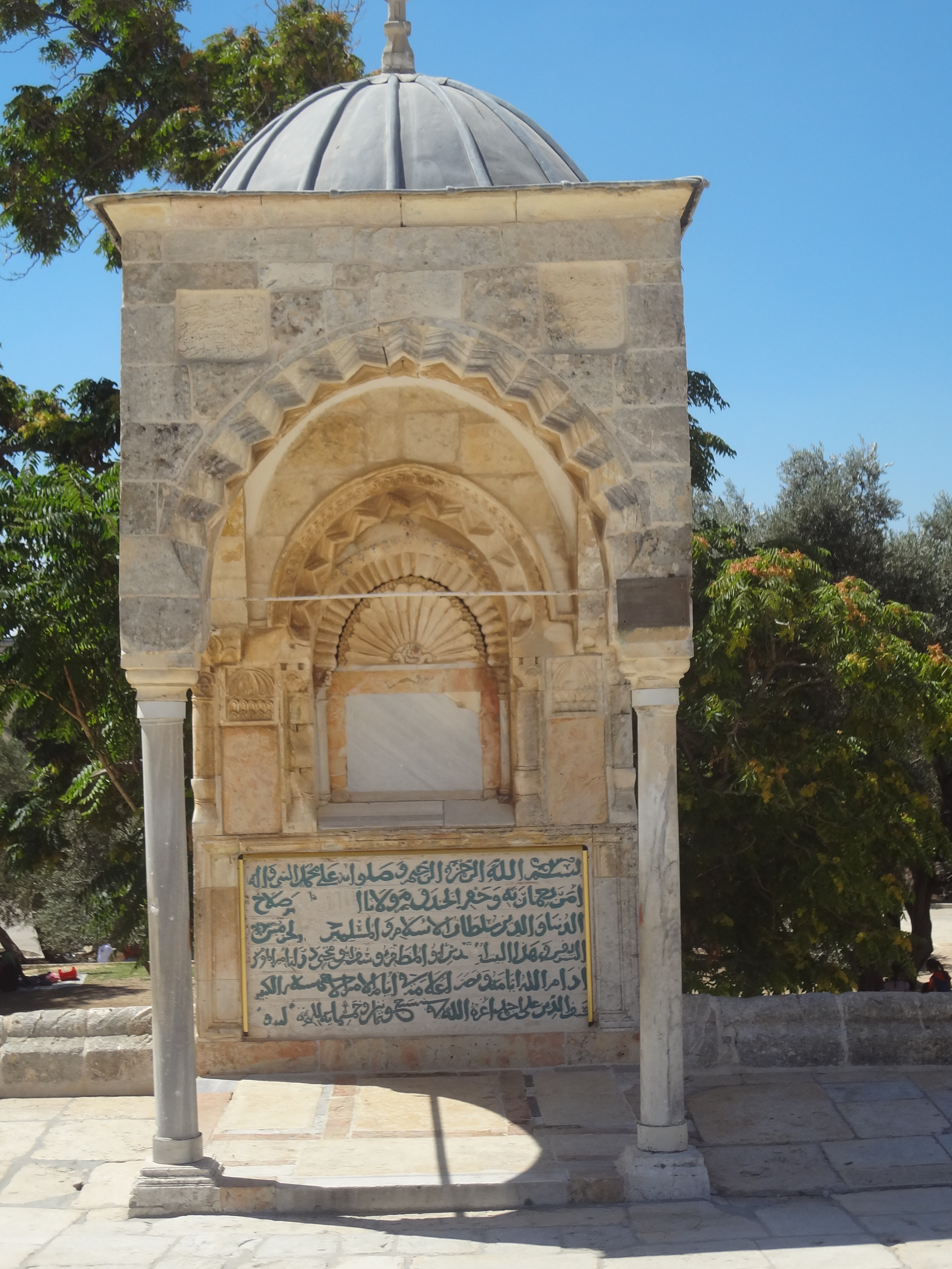 Dome of yusuf on the temple mount.